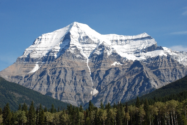 Mount Robson (view from South) without clouds.